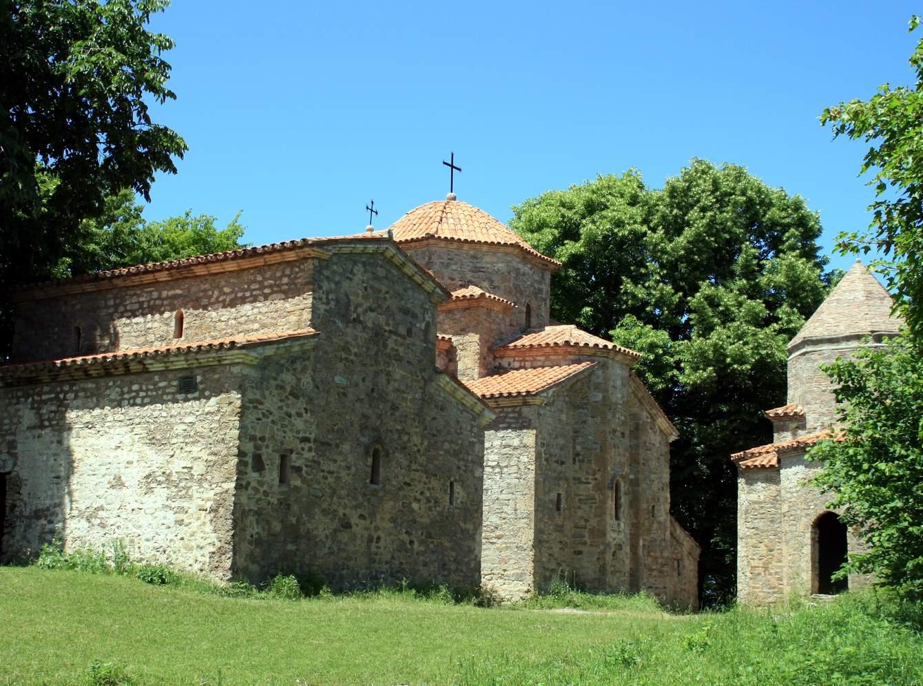 Dzveli Shuamta monastery, Kakheti, Georgia